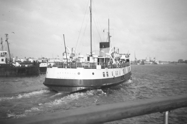 Isle of Wight ferry in Portsmouth Harbour British Rail ferry Shanklin. I can't work out the position from the photo.